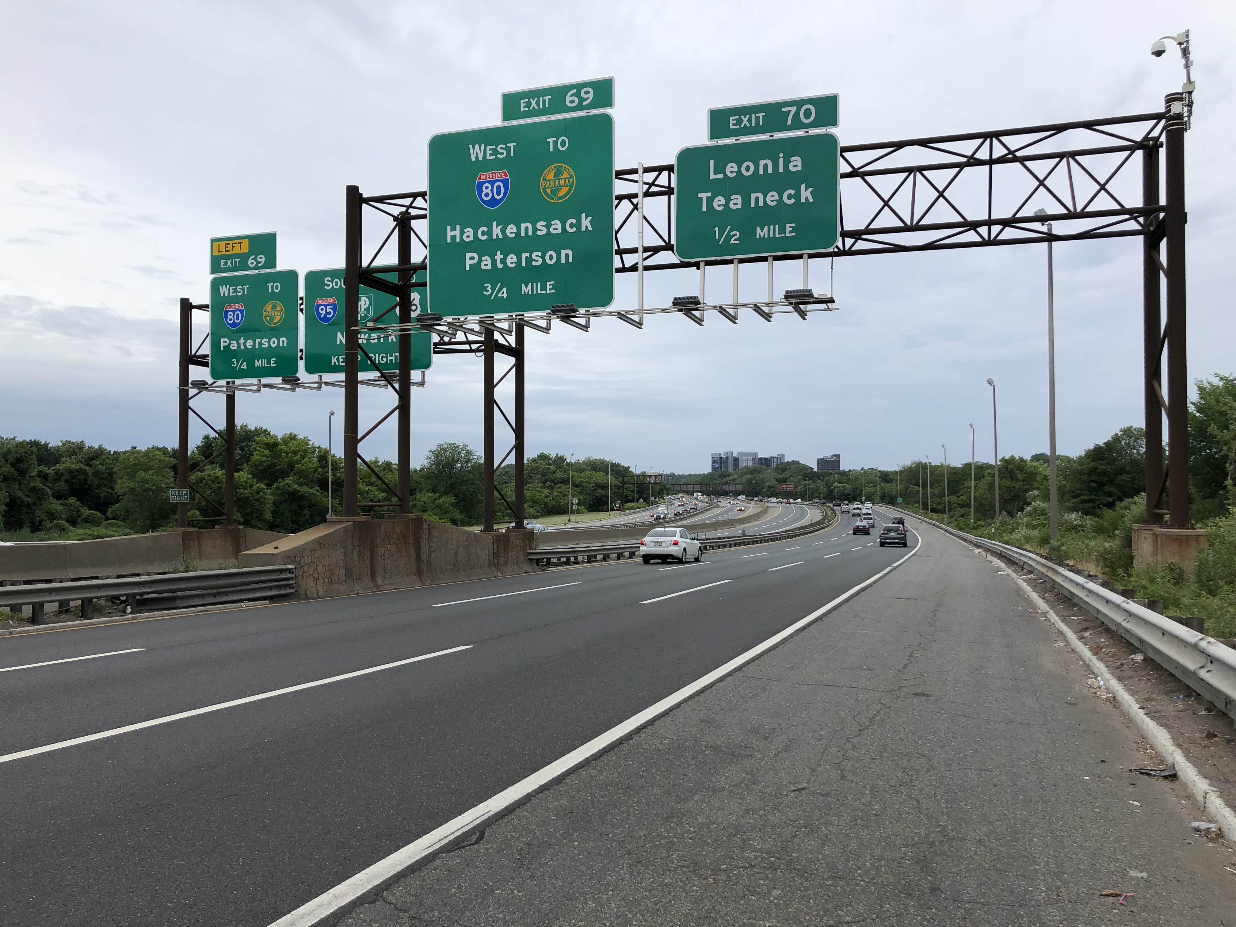 View south along the local lanes of Interstate 95 (Bergen-Passaic Expressway) just north of Exit 70 (Leonia, Teaneck) in Leonia, Bergen County, New Jersey